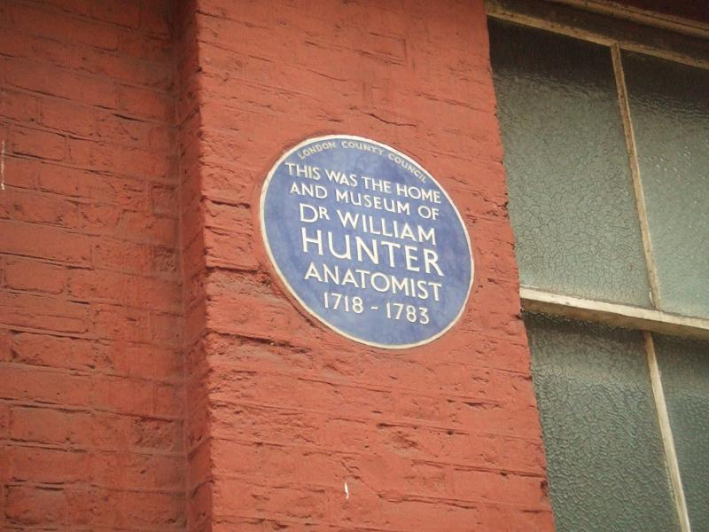 He of the Hunterian Museum.